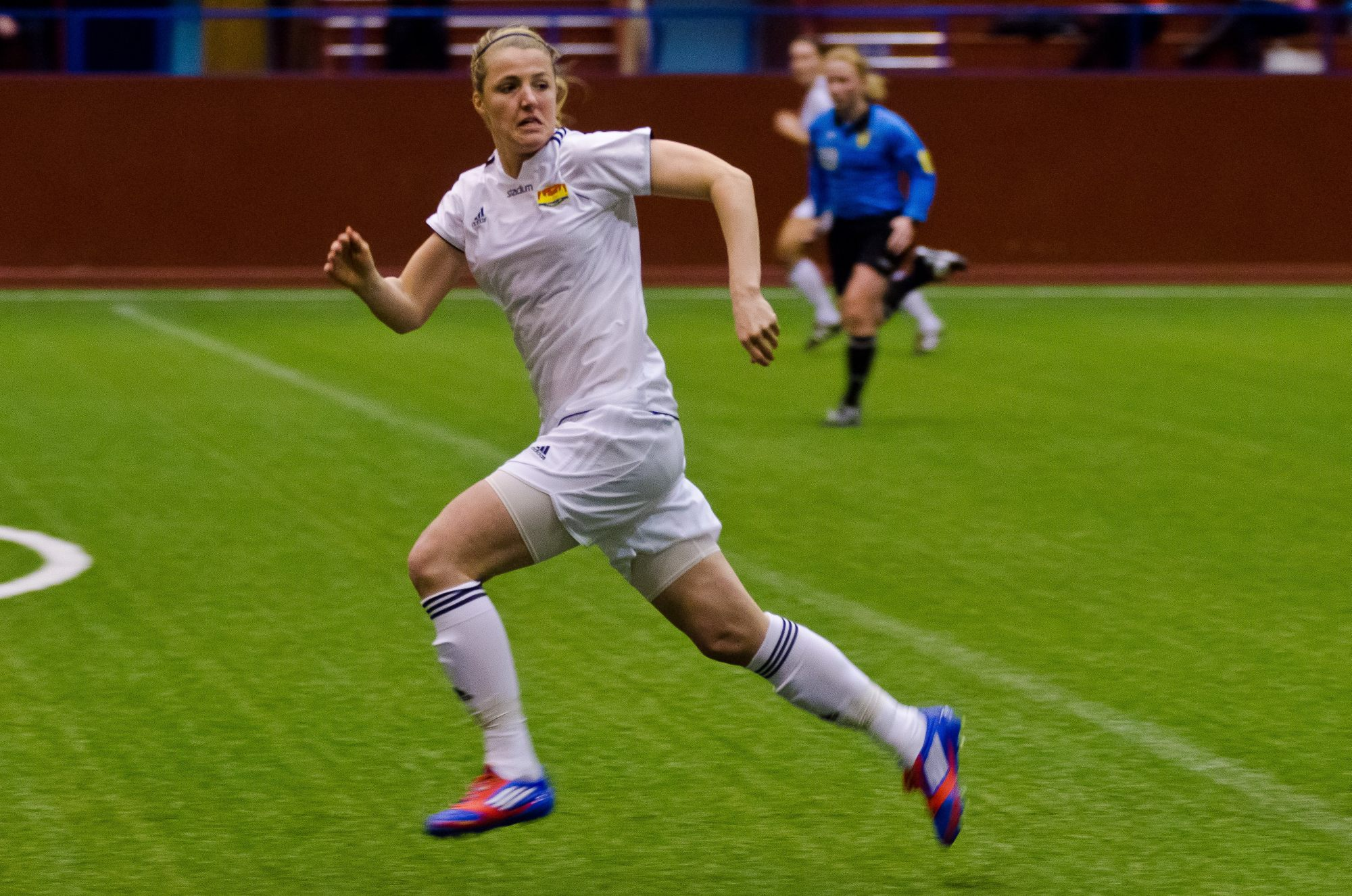 Dutch footballer Kirsten van de Ven playing a pre-season friendly for Tyresö in Växjö Tipshall, February 2012.